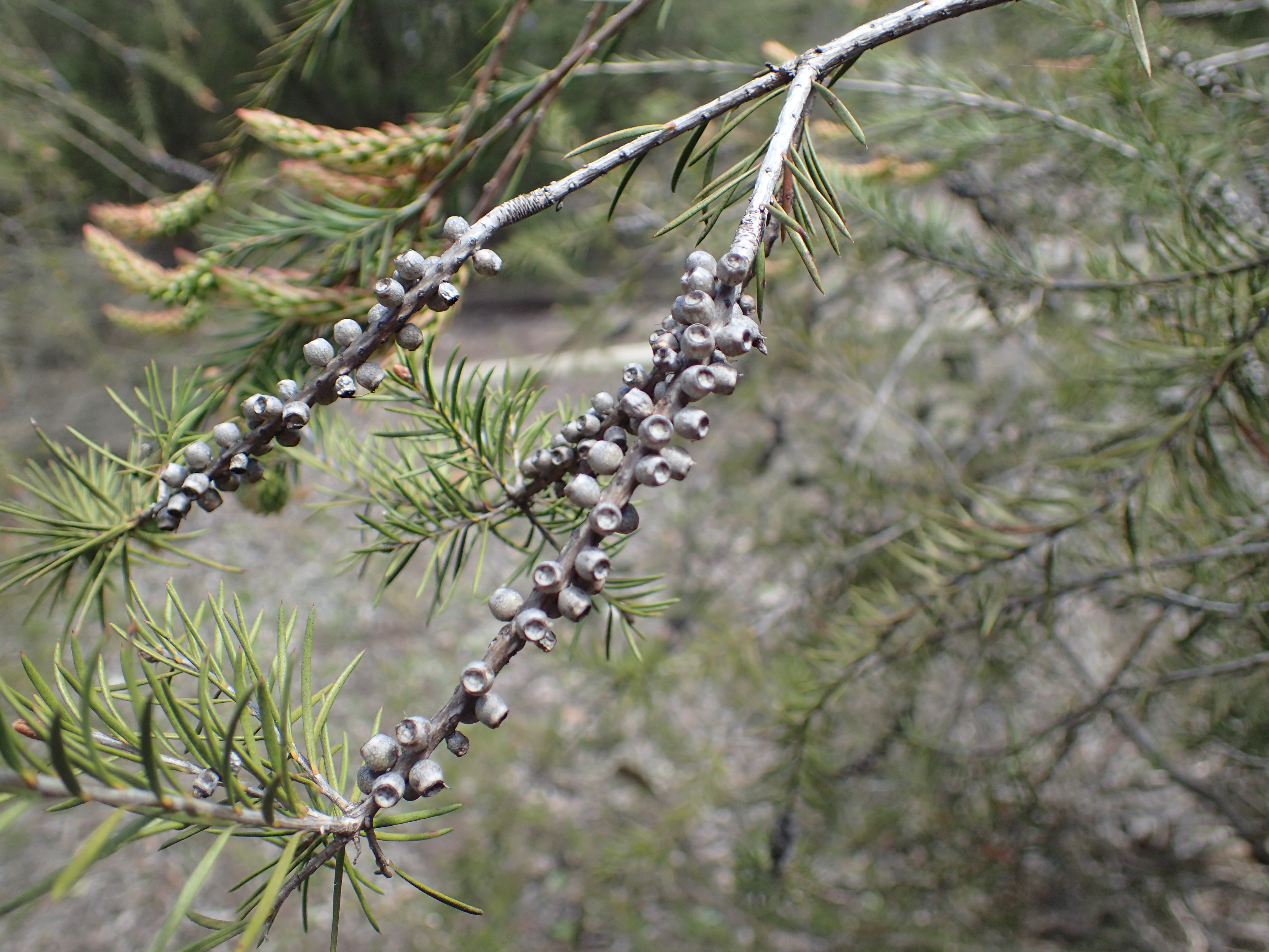 Melaleuca sieberi in the Australian National Botanic Garden